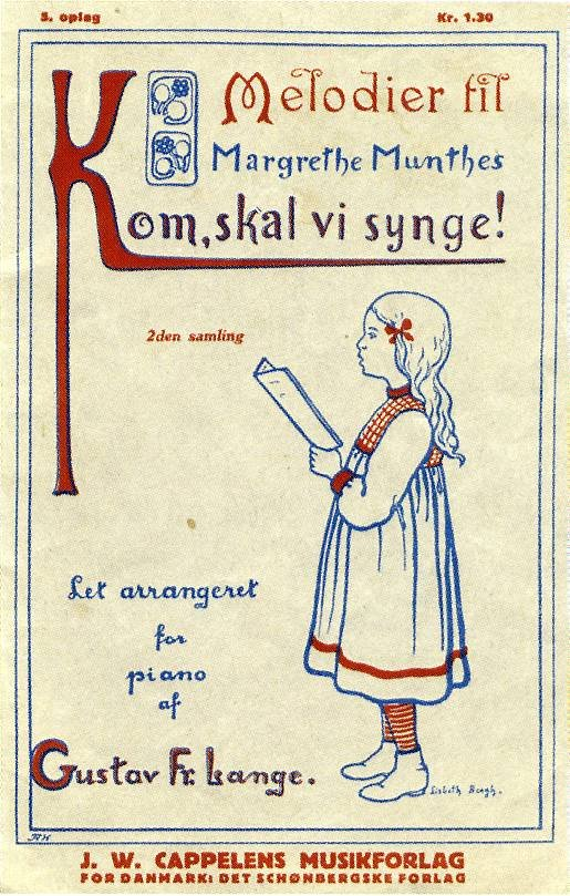 "Kom skal vi synge". 5th edition of Margrethe Munthe's children songs, cover. 1909. Cappelen.